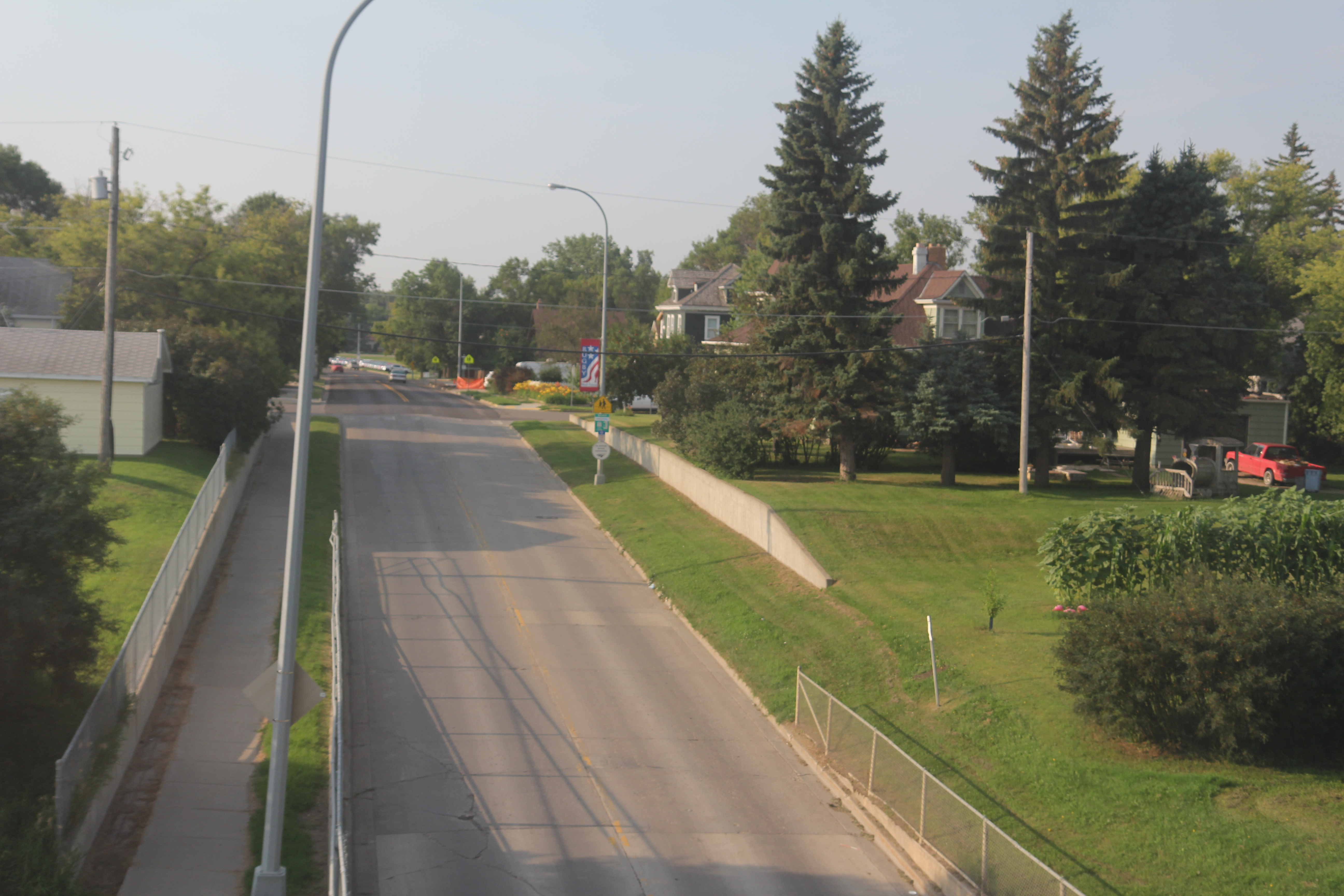 North Dakota Highway 3 in Rugby, North Dakota from Amtrak on train tracks.